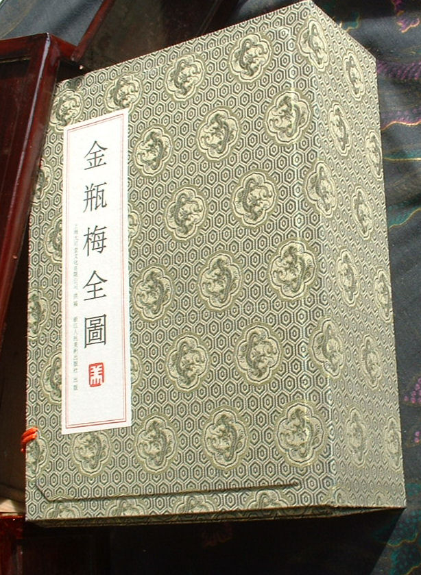 Description: the Chinese novel Jinpingmei (金瓶梅„Jīnpíngméi) Source: own photography Date: November 2005 Author: --Immanuel Giel 15:12, 17 November 2005 (UTC) Other versions: none